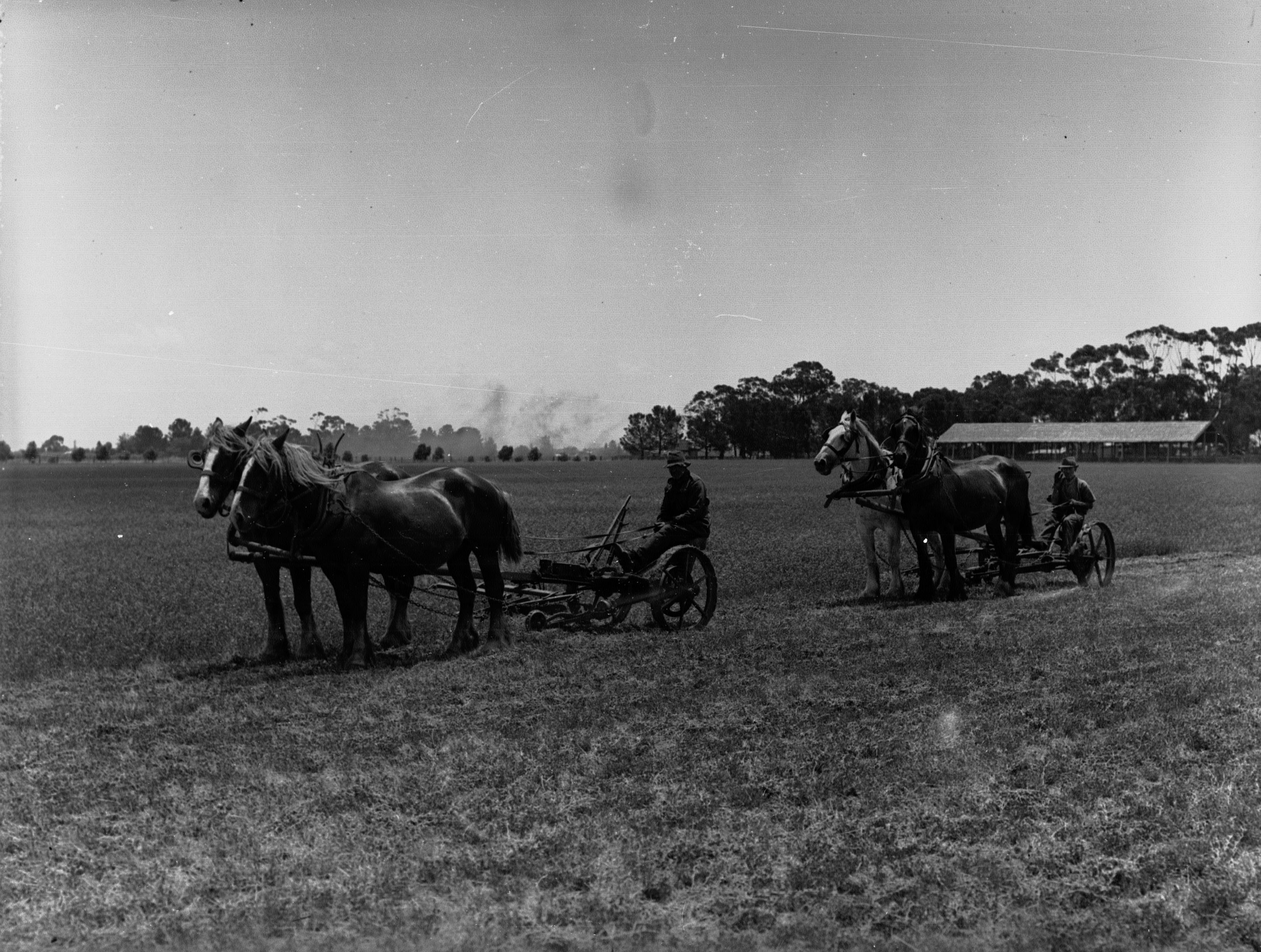 These are mowers for cutting grass, not ploughs. C.f. GN07828. Index 462A says: Lucerne cutting, Virginia. (G Brooks) - Title changed to reflect G Brook's notes